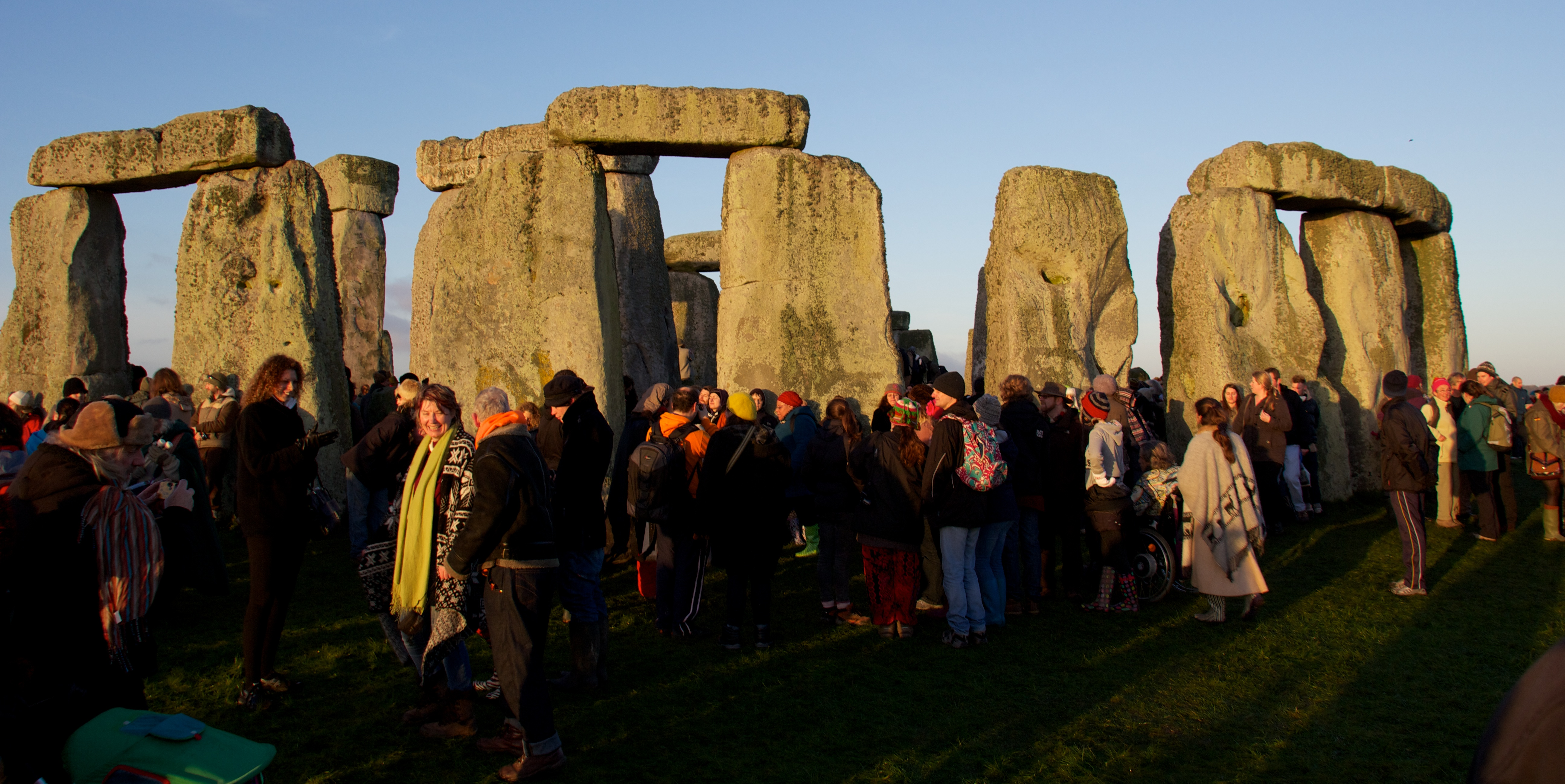 Stonehenge at dawn on winter solstice